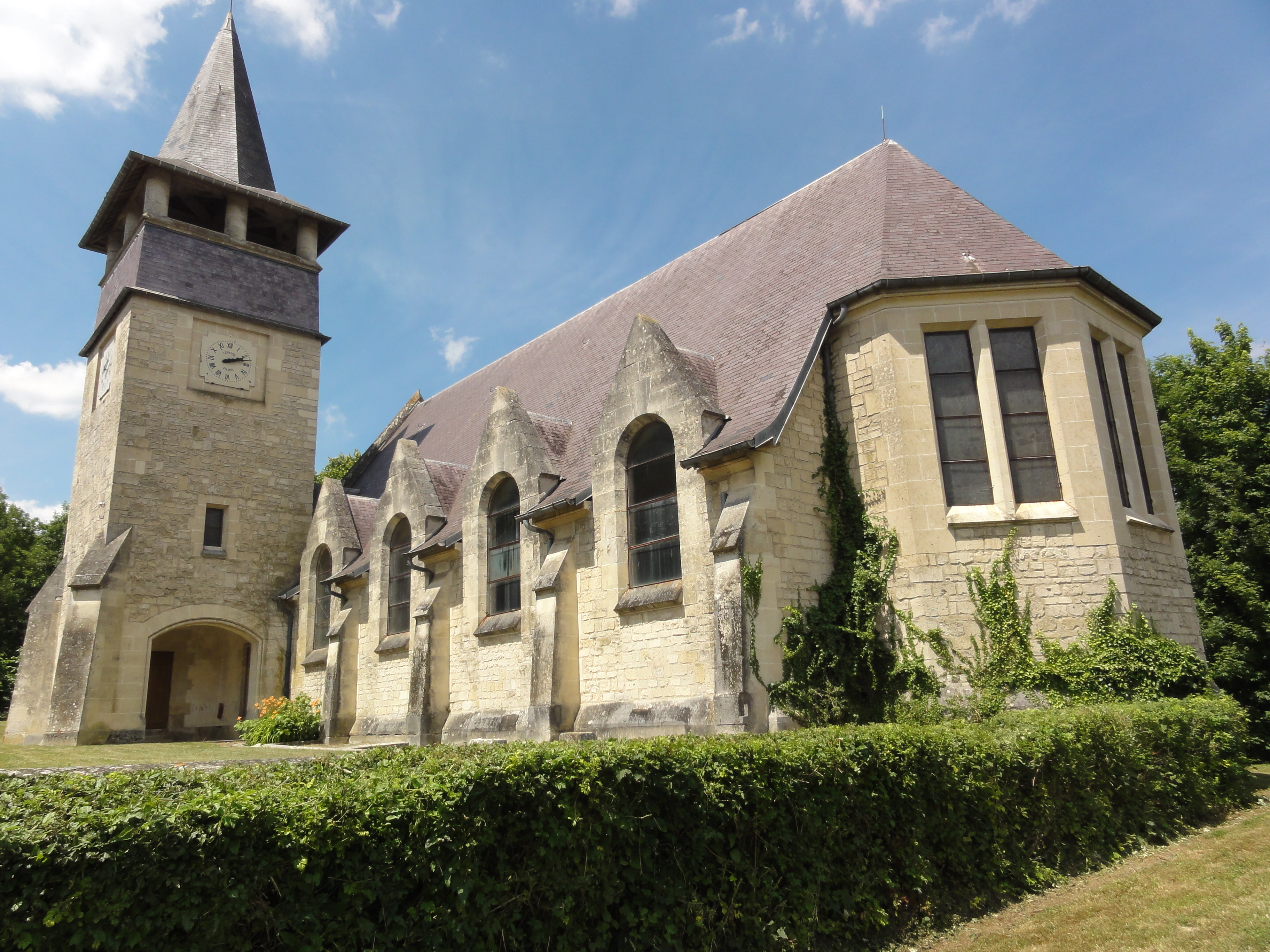 Pargny-Filain (Aisne) église